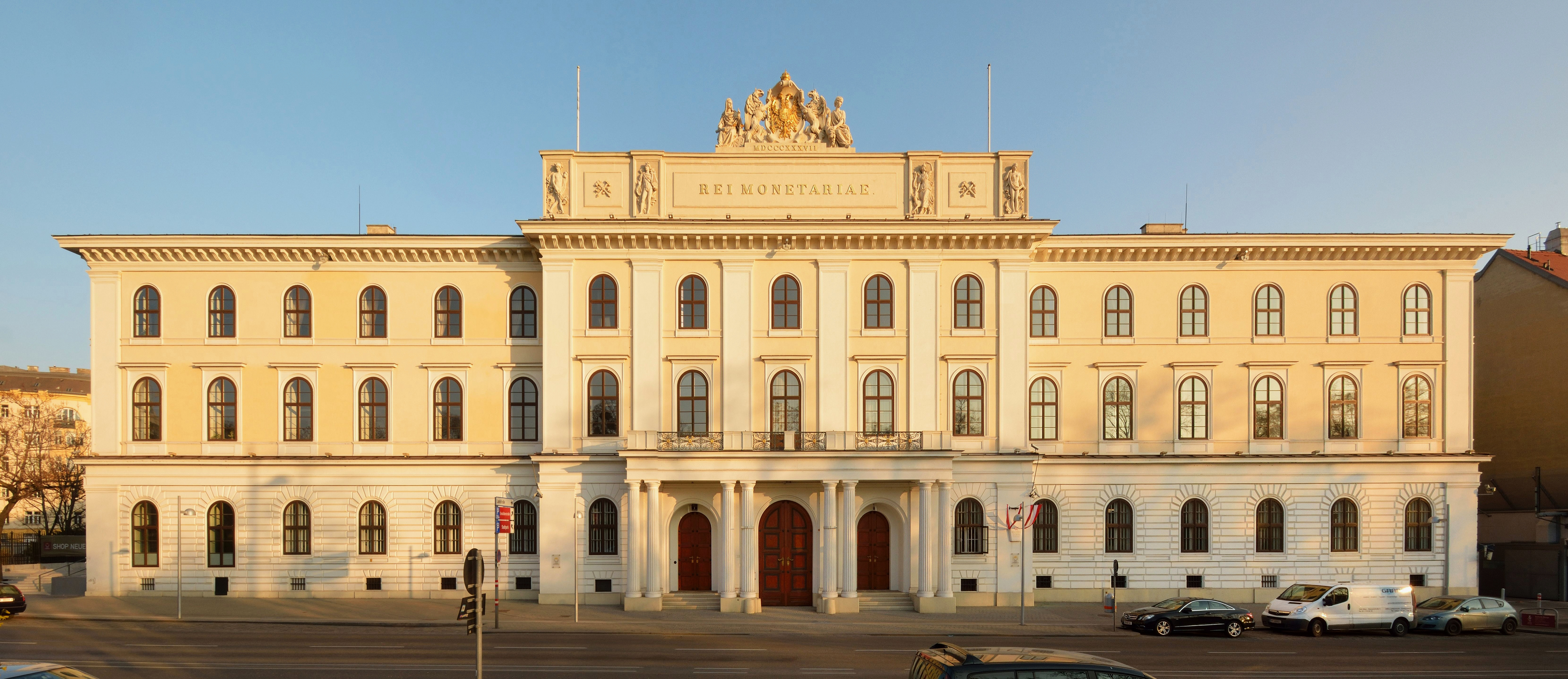 Austrian Mint, Am Heumarkt 1, 3rd district of Vienna